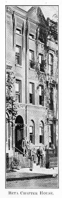 Early image of Phi Sigma Kappa's Beta chapter, circa 1910, located at the Union College, from The Signet magazine. Posted for use on the Phi Sigma Kappa and List of Phi Sigma Kappa Chapters pages. The building was quite narrow, and this photo shows its actual proportions. This photo has been reduced in resolution from the original.